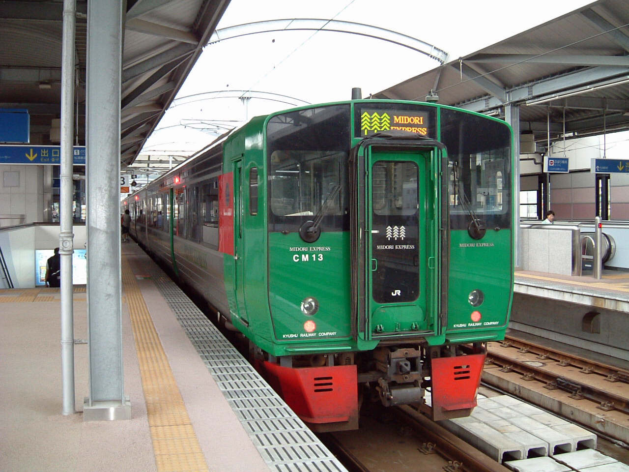 特急「みどり」用クロハ782形（佐世保駅にて）Limited Exp.Midori,at Sasebo Station